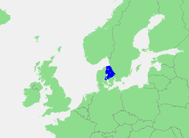 Location map of Kattegat — a strait-bay of the North Sea and an outlet of the Baltic Sea.